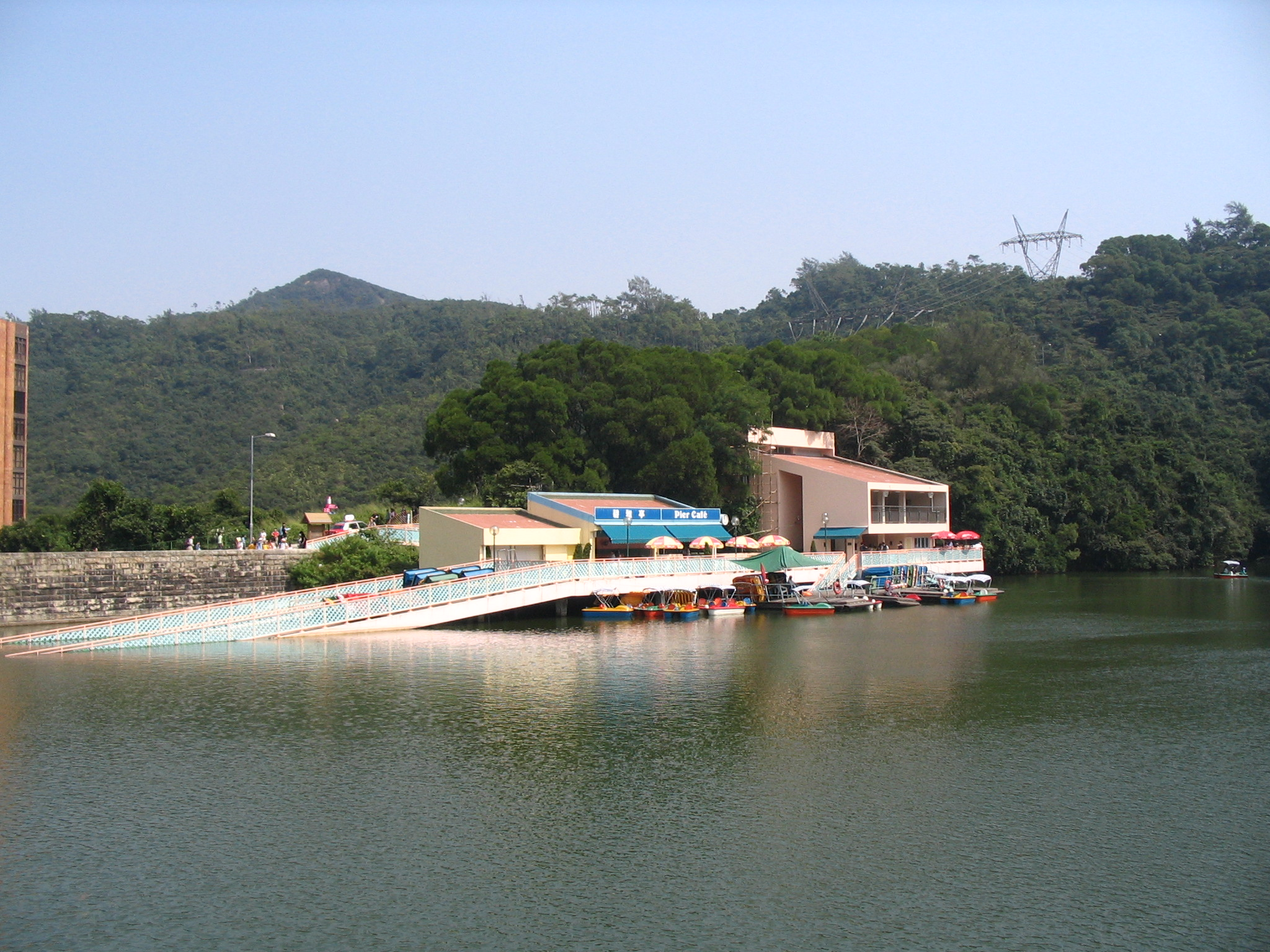 Photo of Wong Nai Chung Reservoir Park